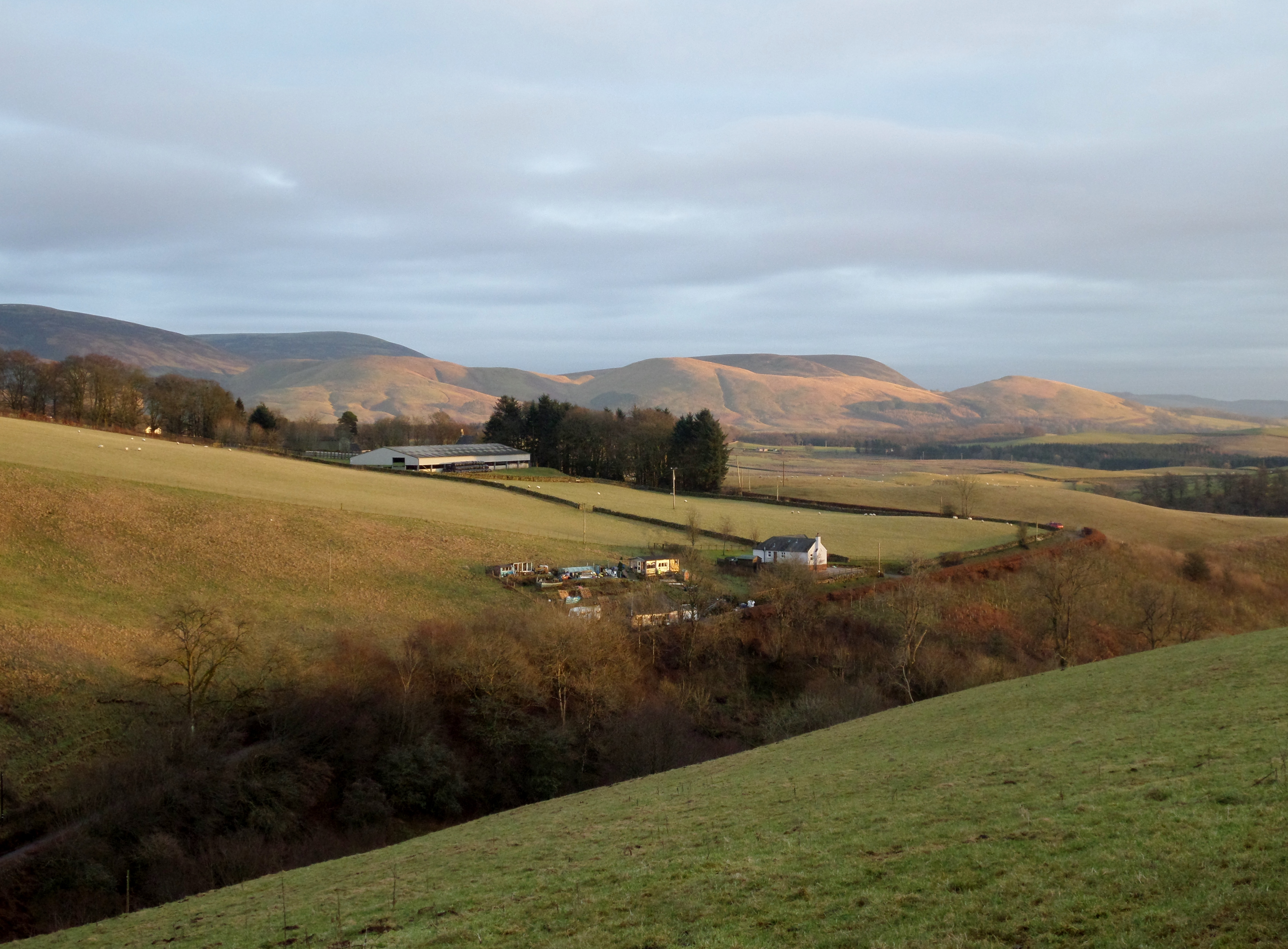 Kirkbride, Durisdeer Parish, Enterkinfoot - Coshogle Cottage & S-E view of Nithsdale.